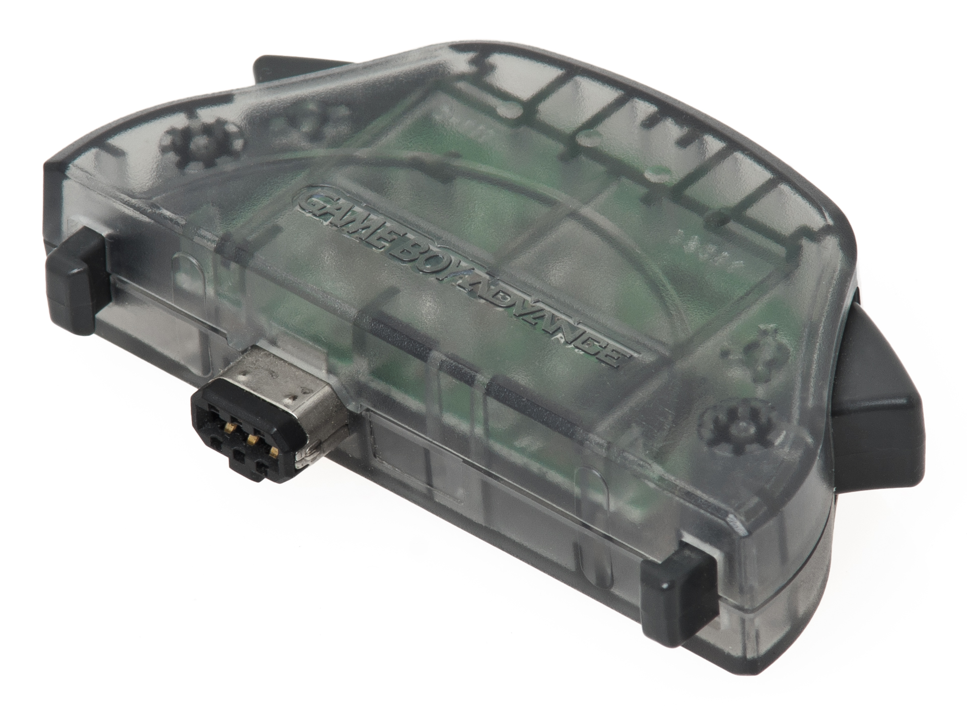 The Game Boy Advance Wireless Adapter, mainly used for Pokemon FireRed and LeafGreen.